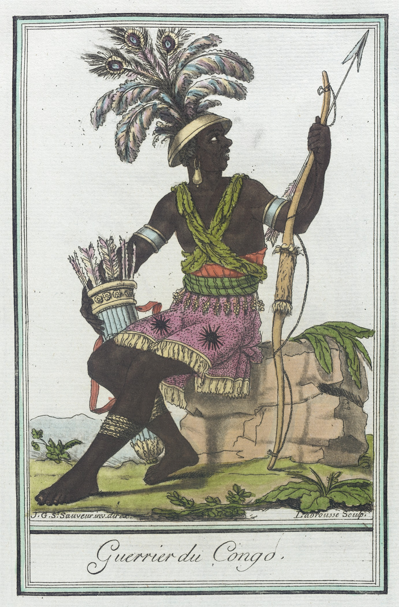 France, circa 1797 Prints; engravings Hand-tinted engraving on paper Sheet: 10 1/2 x 7 5/8 in. (26.67 x 19.37 cm); Composition: 7 7/8 x 5 7/8 in. (20.01 x 14.92 cm) Costume Council Fund (M.83.190.318) Costume and Textiles